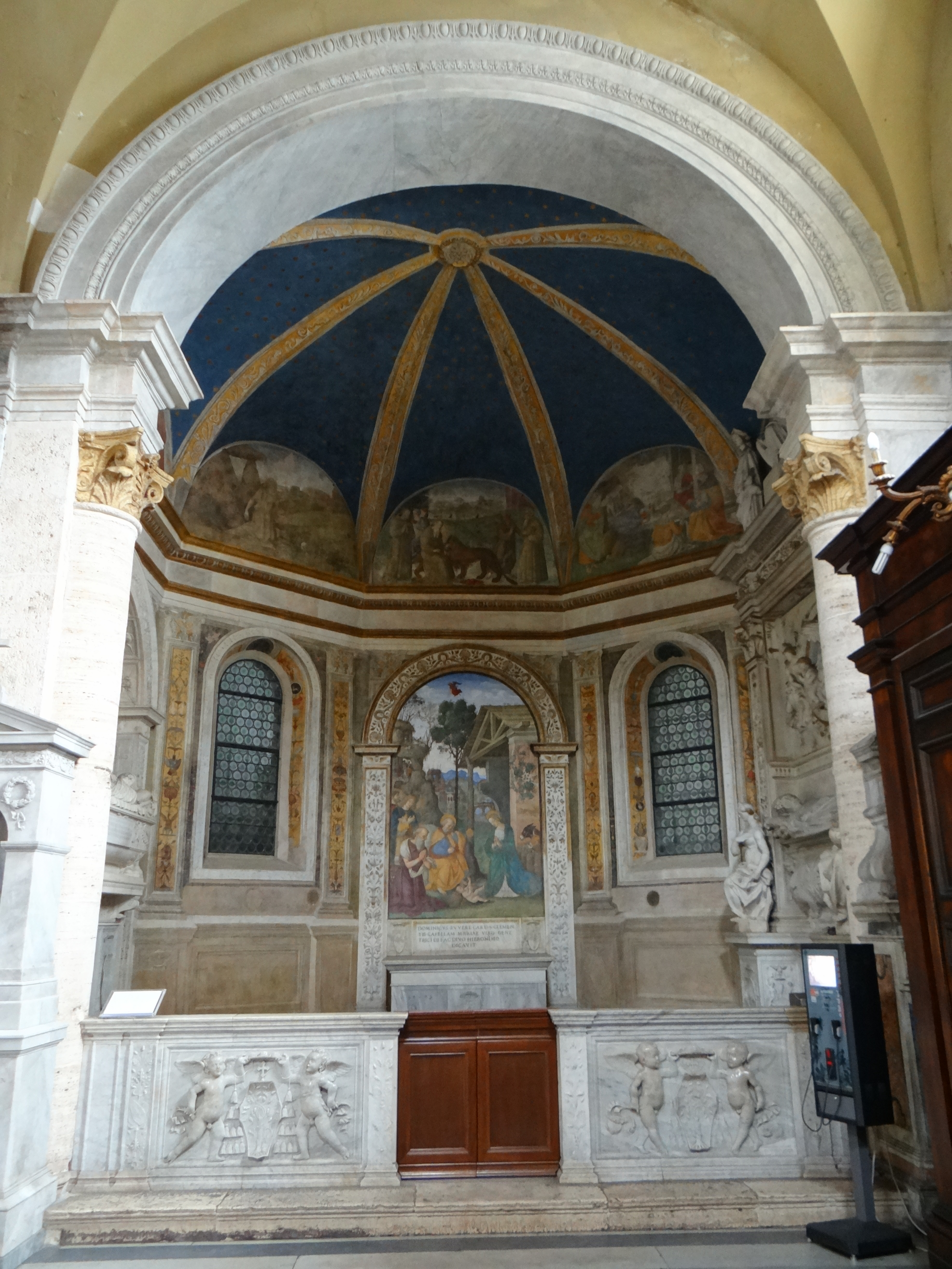 The Della Rovere Chapel in the Basilica of Santa Maria del Popolo